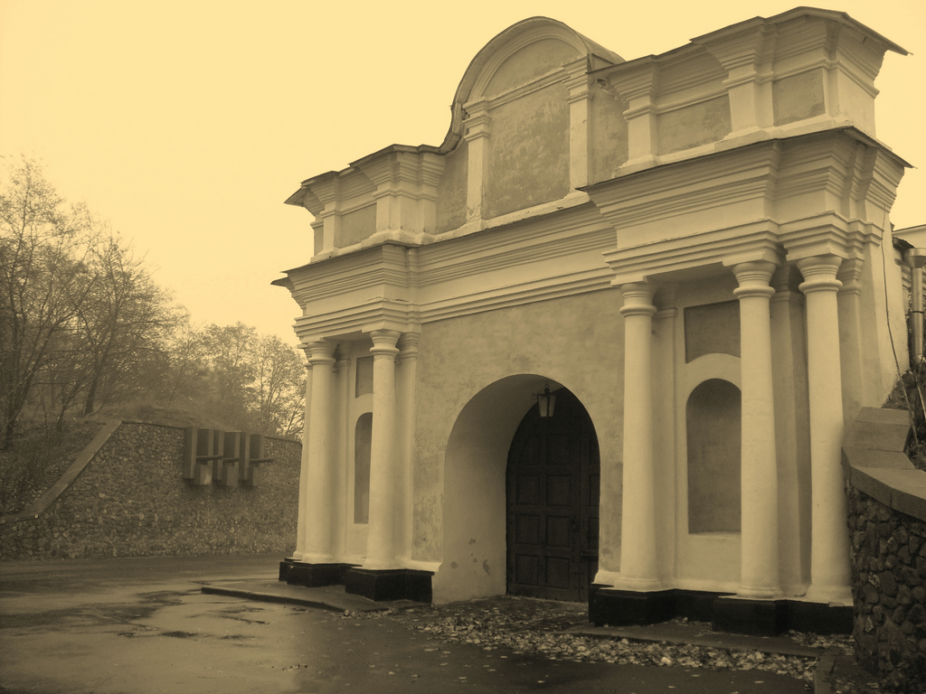 Upper Moscow Gates in Kiev (1765). Some modern details removed. Changed to sepia.